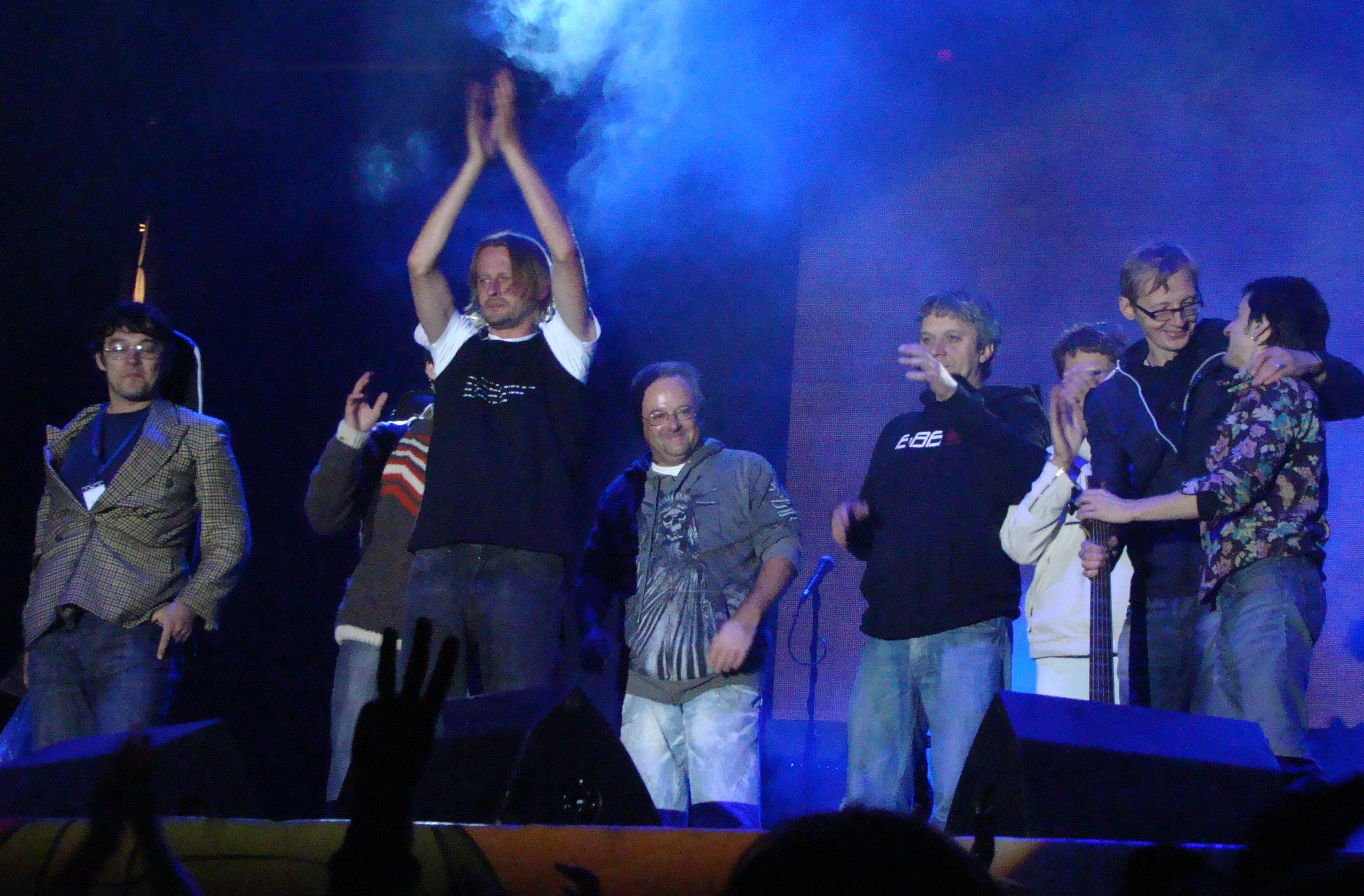 "Mertvyj Pivenj" after their appearance in the Fort.Missia festival 2011.